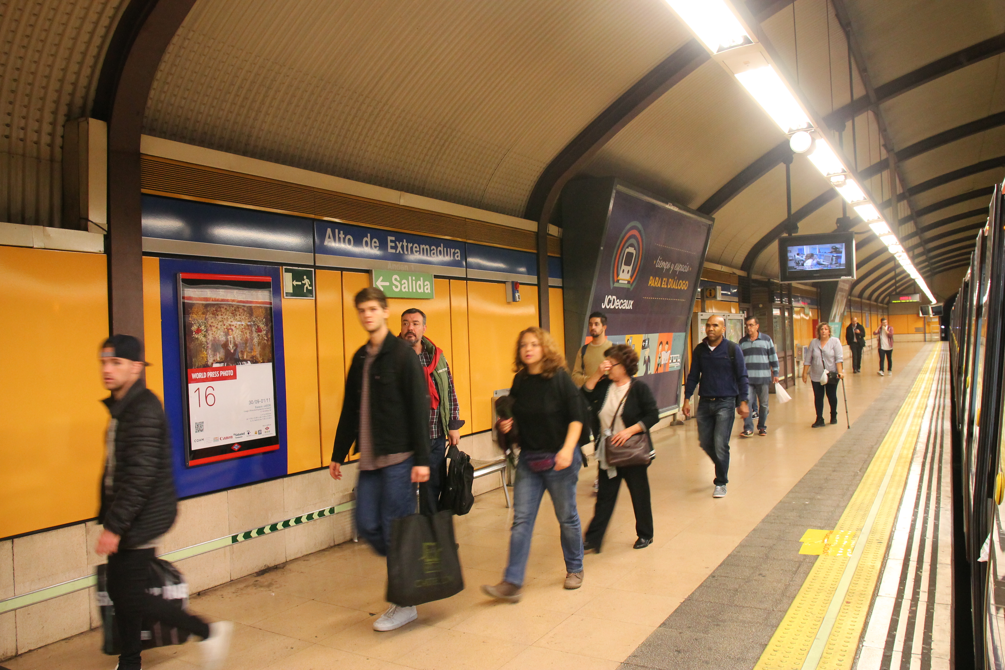 Estación de Alto de Extremadura